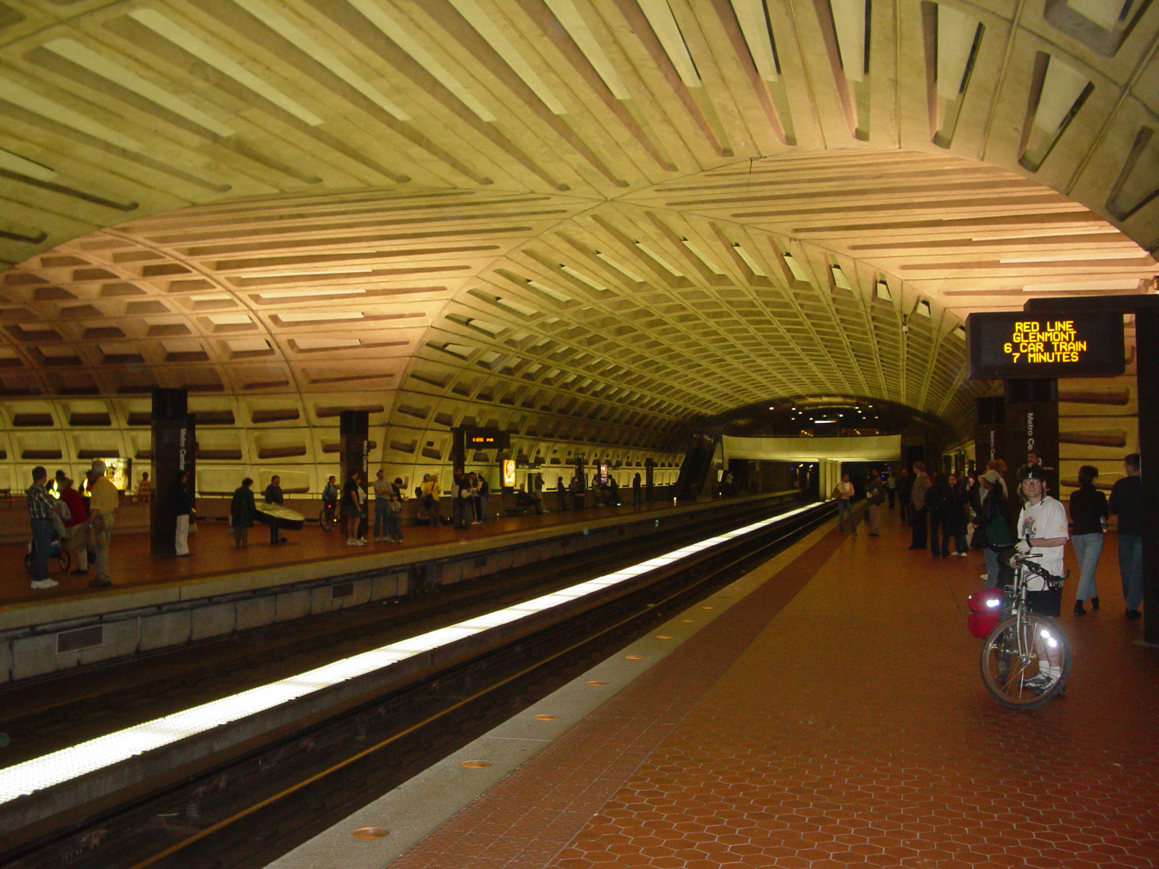 Crossvault at Metro Center, taken with flash.